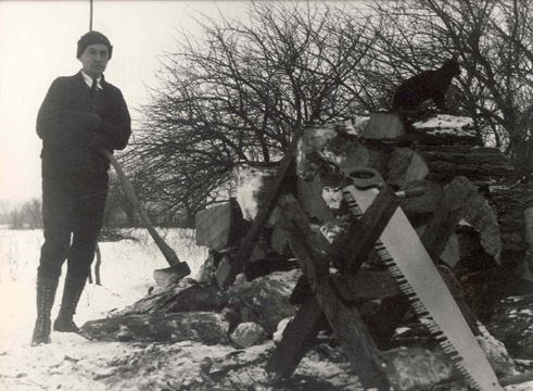 This image is of Thoreau MacDonald, son of Group of Seven Artist J.E.H. MacDonald, at his home in Thornhill, ca. 1950